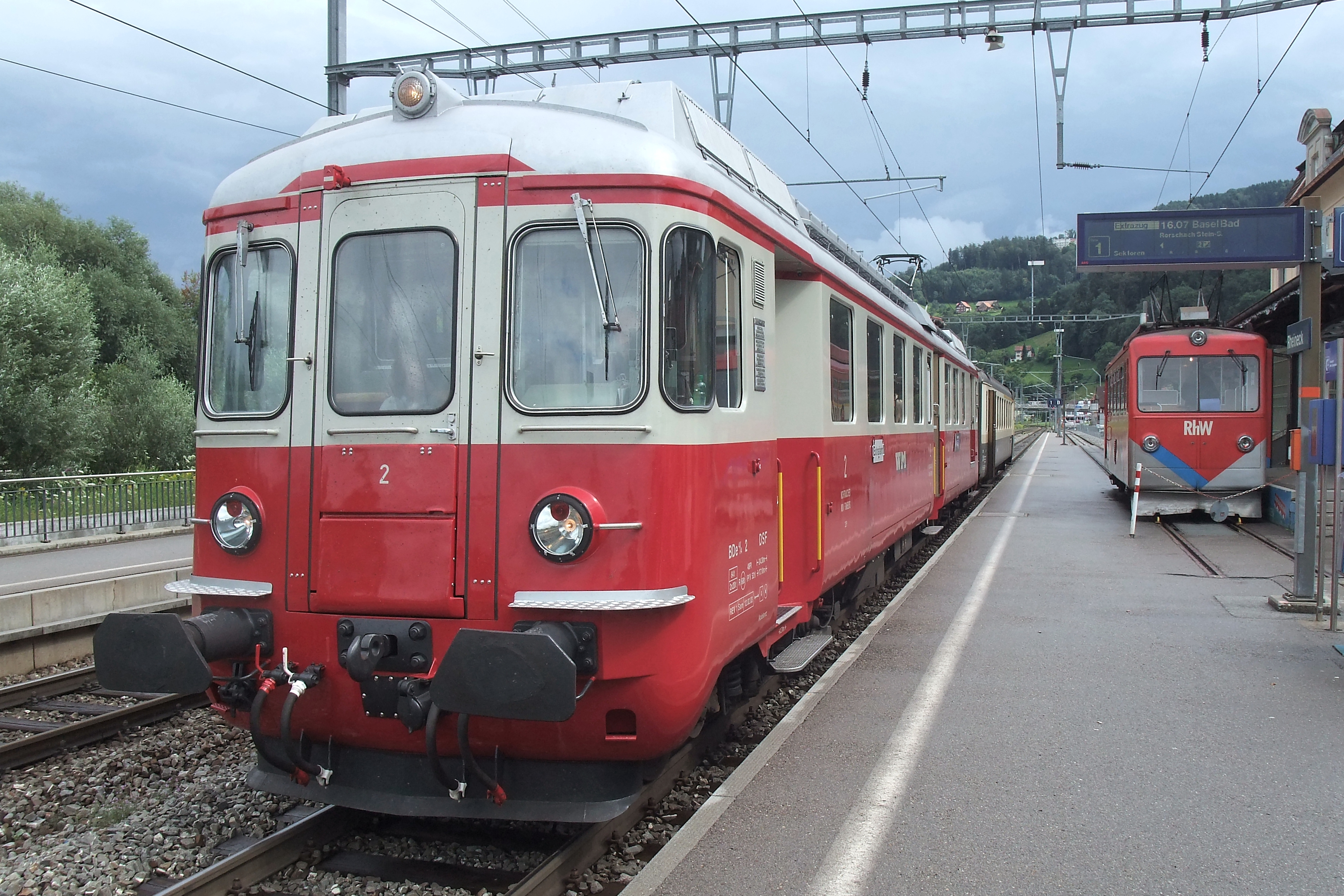 Railcar BDe 4/4 2 of the former Wohlen–Meisterschwanden railway (WM) on extra tour. The railway line was opened 1916 with a length of 8.23 km. This railcar was on duty from 1966 to 1997, then the railway line was canceled and replaced by a bus line. Rheineck station, Switzerland, July 18, 2009. See where this picture was taken. [?]